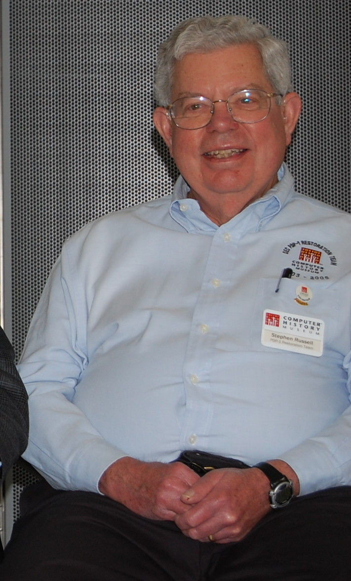 Steve Russell at the opening event of Computer History Museum's Revolution exhibition